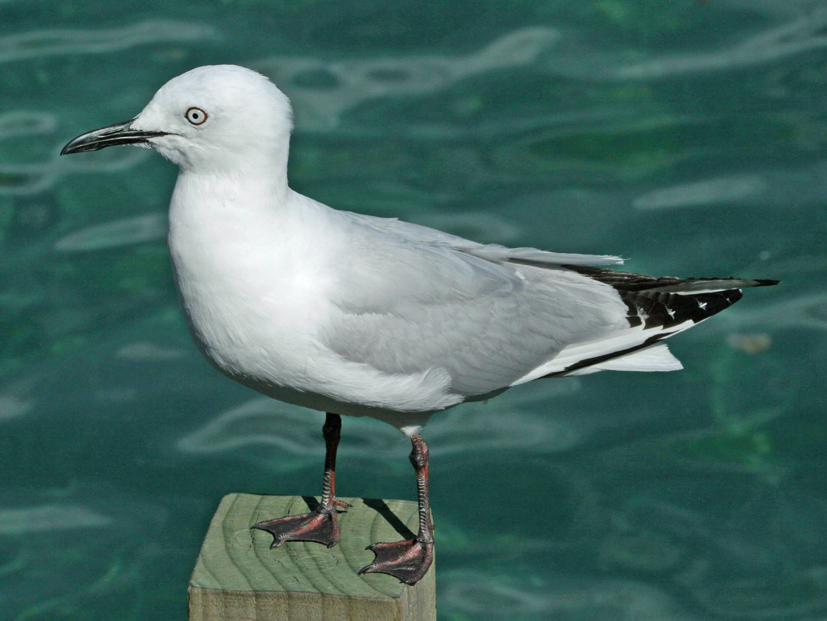 Black-billed Gull (Chroicocephalus bulleri) - New Zealand